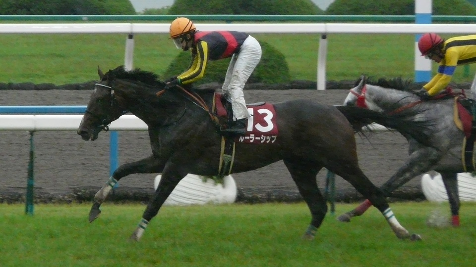 Rulership20110528(1)